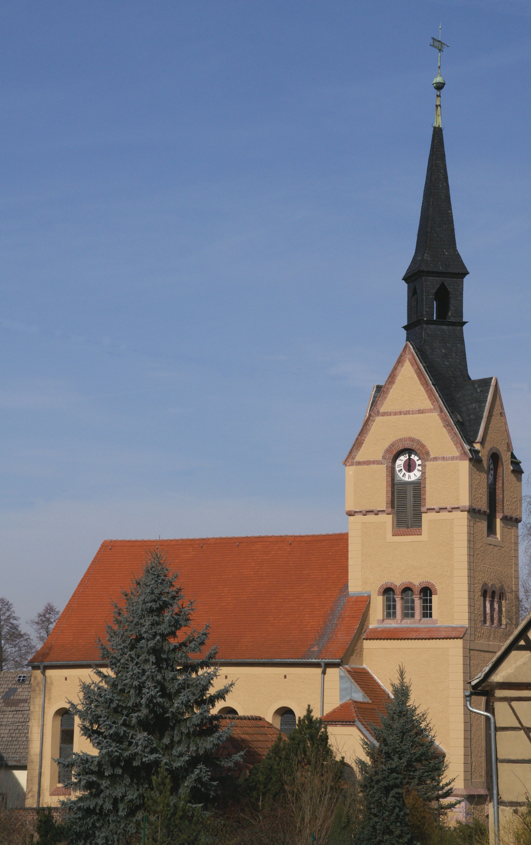 Church of Nöbdenitz near Schmölln, Germany.